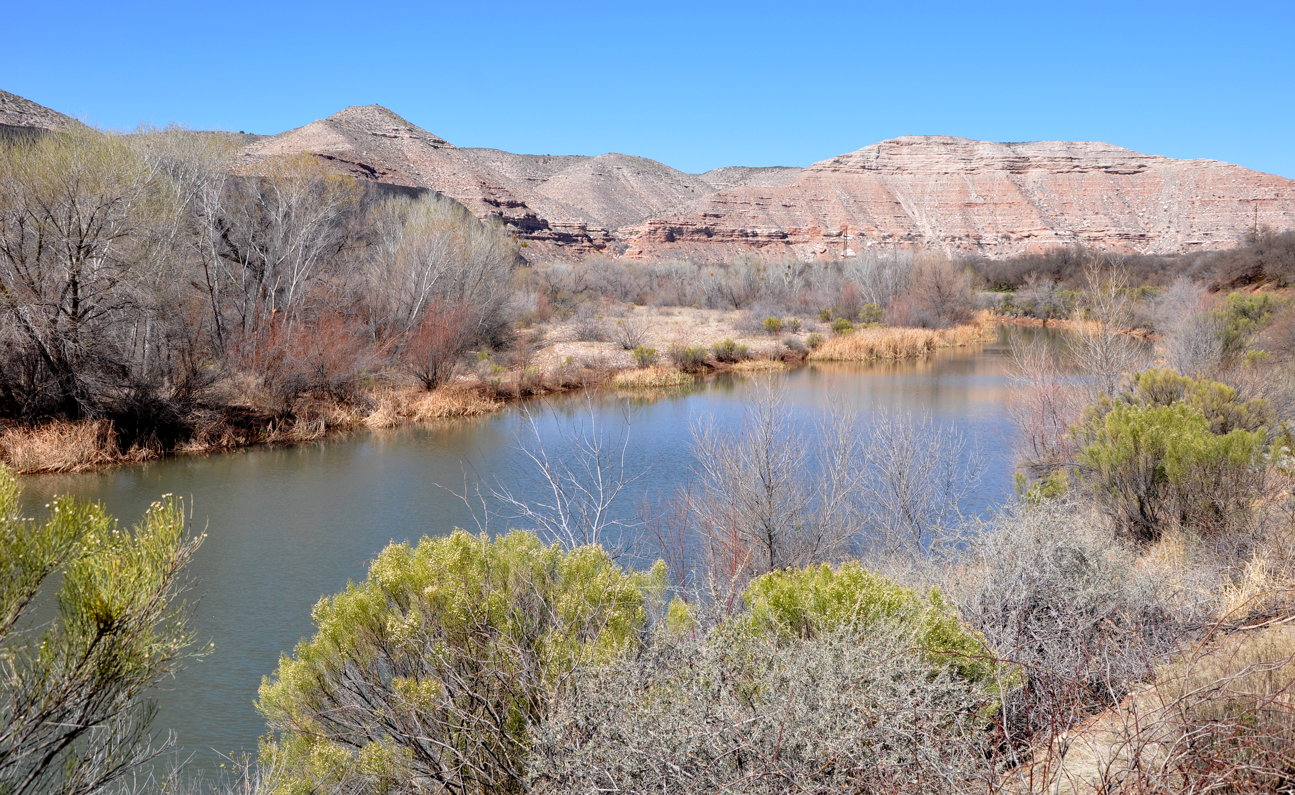 Verde River upstream of Clarkdale in the U.S. state of Arizona. View is to the north from Sycamore Canyon Road.